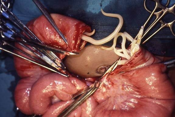 A gangrenous piece of bowel was cut out (this is termed volvulus - the bowel that has twisted in a way that cuts off its blood supply; the bowel becomes dead very quickly). From the bowel ends that have to be joined up again, ascaris are emerging. The worms are all alive and waving around. The metal surgeon clamps (haemostats) are on the small blood vessels in the bowel mesentery which is a curtain of fat and membrane that holds the bowel to the back of the abdomen and through which the arteries that supply the bowel itself go. These clamps are used to stop bleeding while the next steps of the procedure are prepared. In those days (1988) piperazine would be instilled to try to stop the worms disrupting the stiches. Photo by Larry Hadley, South Africa This photo was also used in this journal article: British Journal of Surgery 1988;75:86-87